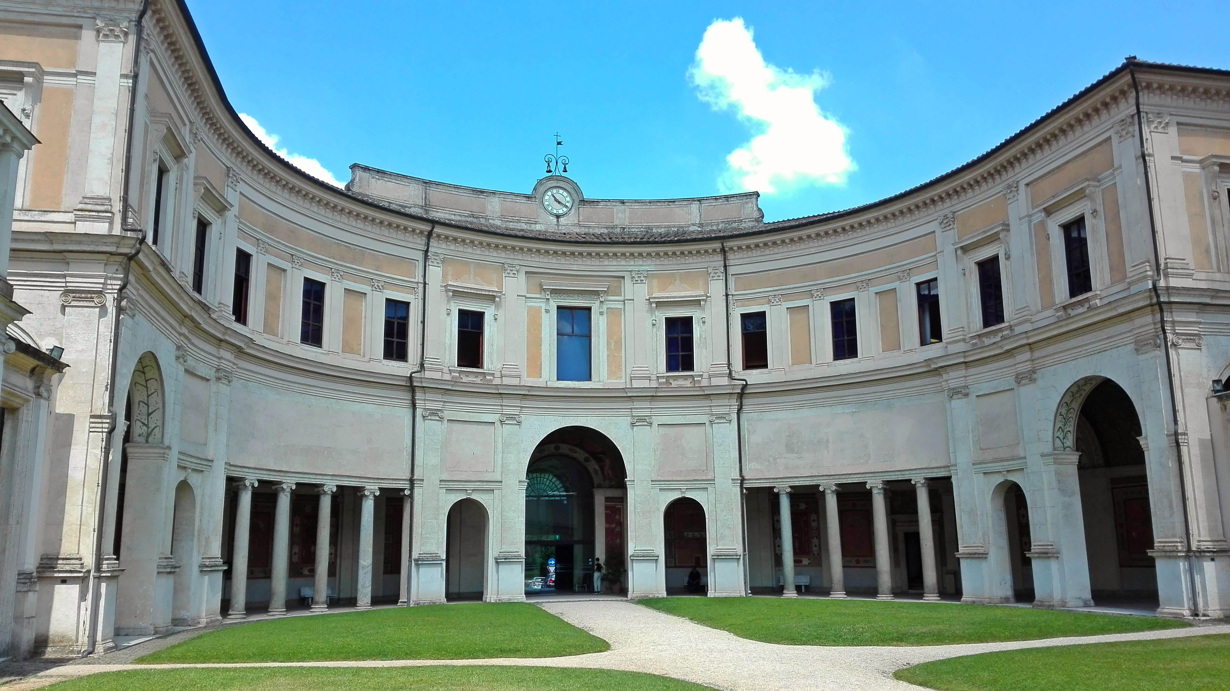 This is a photo of a monument which is part of cultural heritage of Italy.